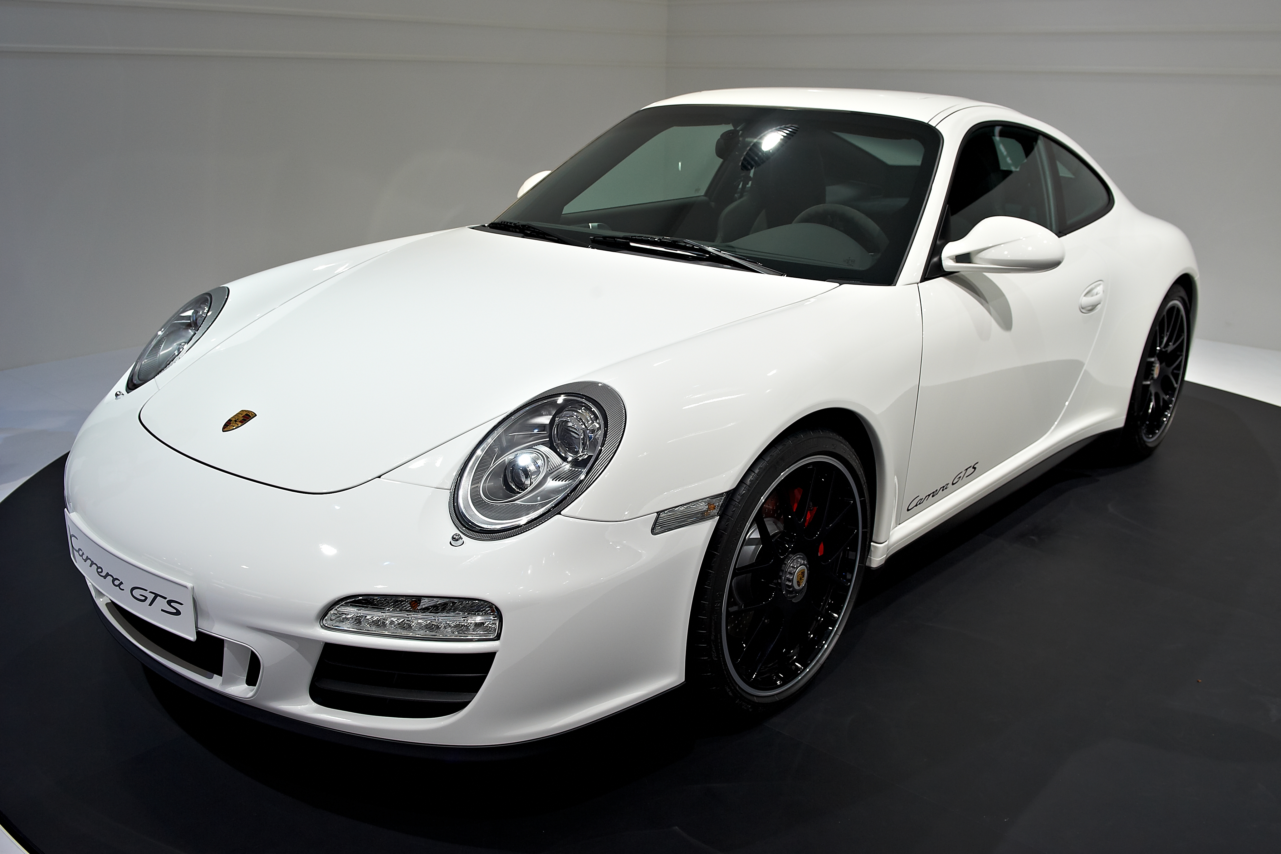 2010 white Porsche 997 Carrera GTS coupé at the "Mondial de l’Automobile de Paris 2010".Porsche Carrera GTS